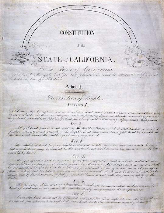 Title page of the 1849 Constitution of California